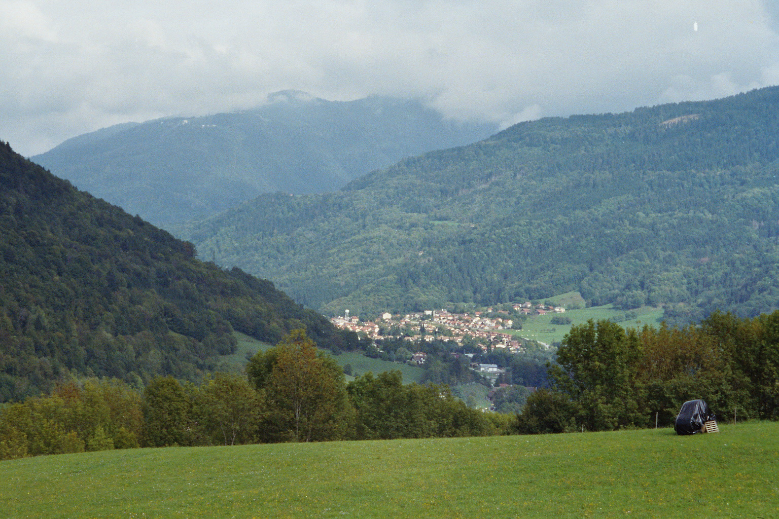 The town of Saint Pierre d'Allevard in its valley